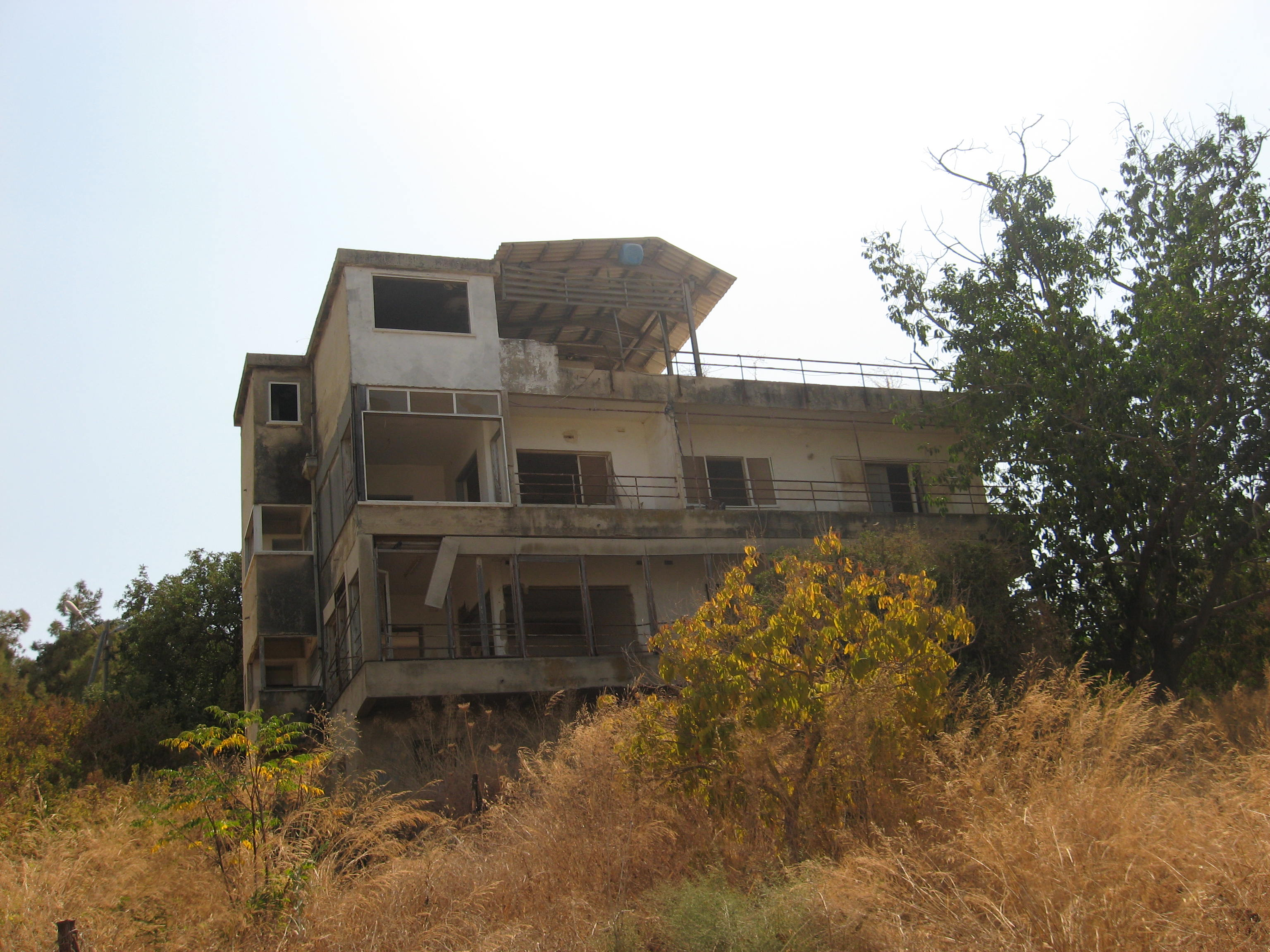 Givat Brenner - the Roccas' house